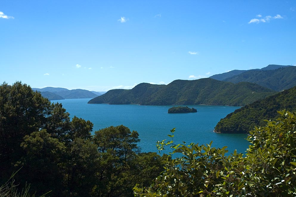 Photograph by James Shook, who retains copyright and releases the image under the license shown below.